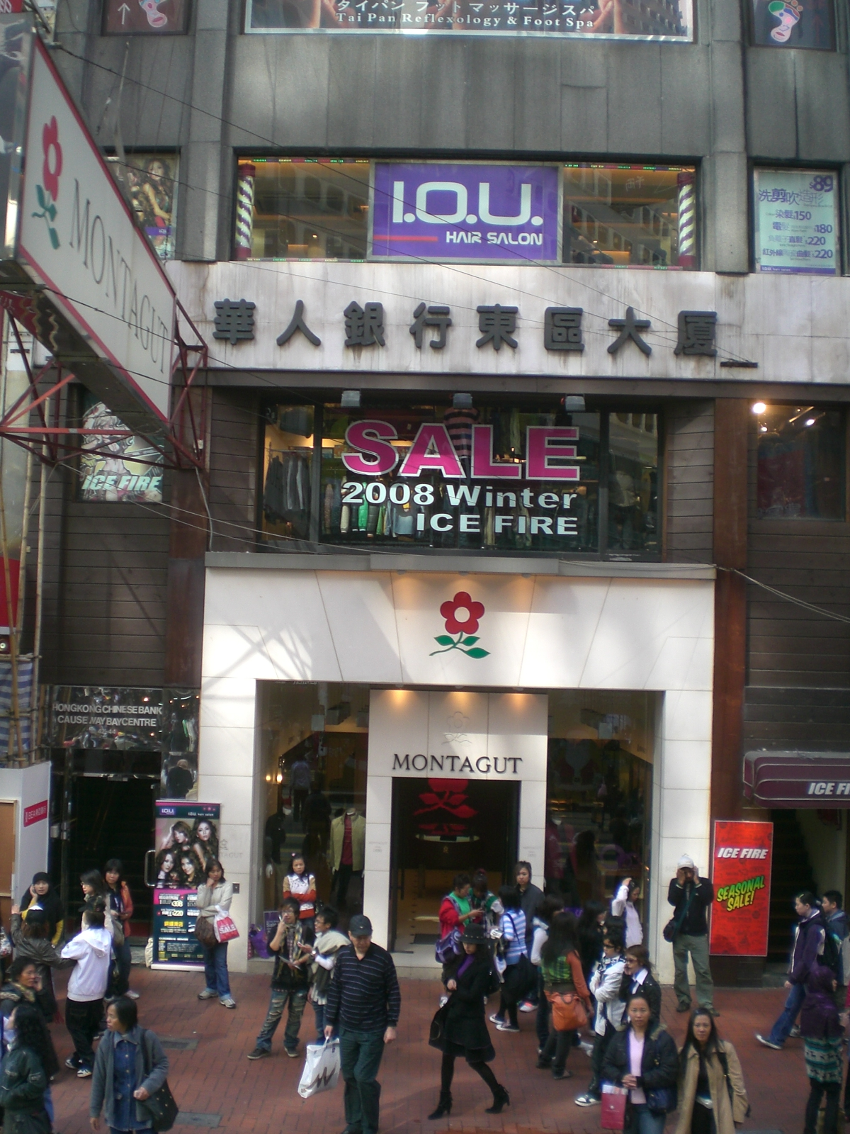 銅鑼灣 怡和街 華人銀行東區大廈 Montagut (clothing)